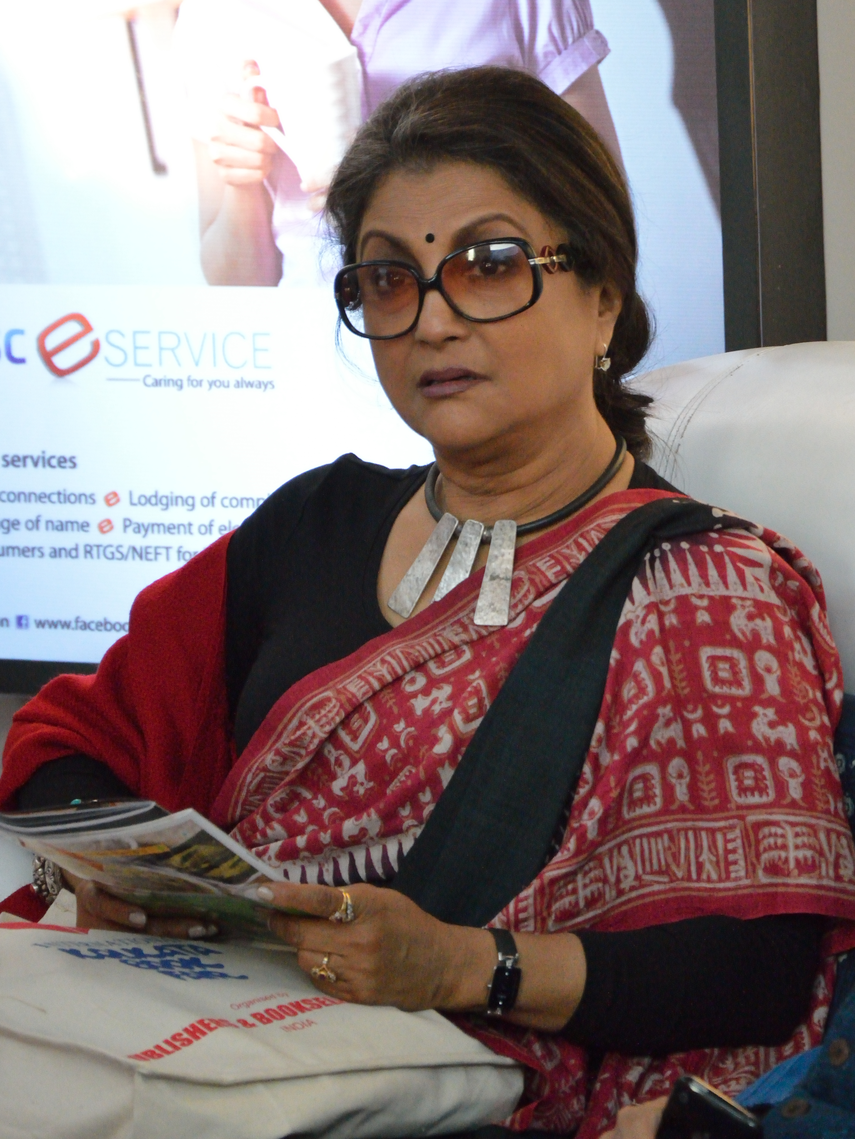 Aparna Sen (Bengali: অপর্ণা সেন born 25 October 1945) is a critically acclaimed Bengali Indian filmmaker, script writer, and actress. Photographed durintg the 38th International Kolkata Book Fair at Milan Mela Complex , Kolkata.